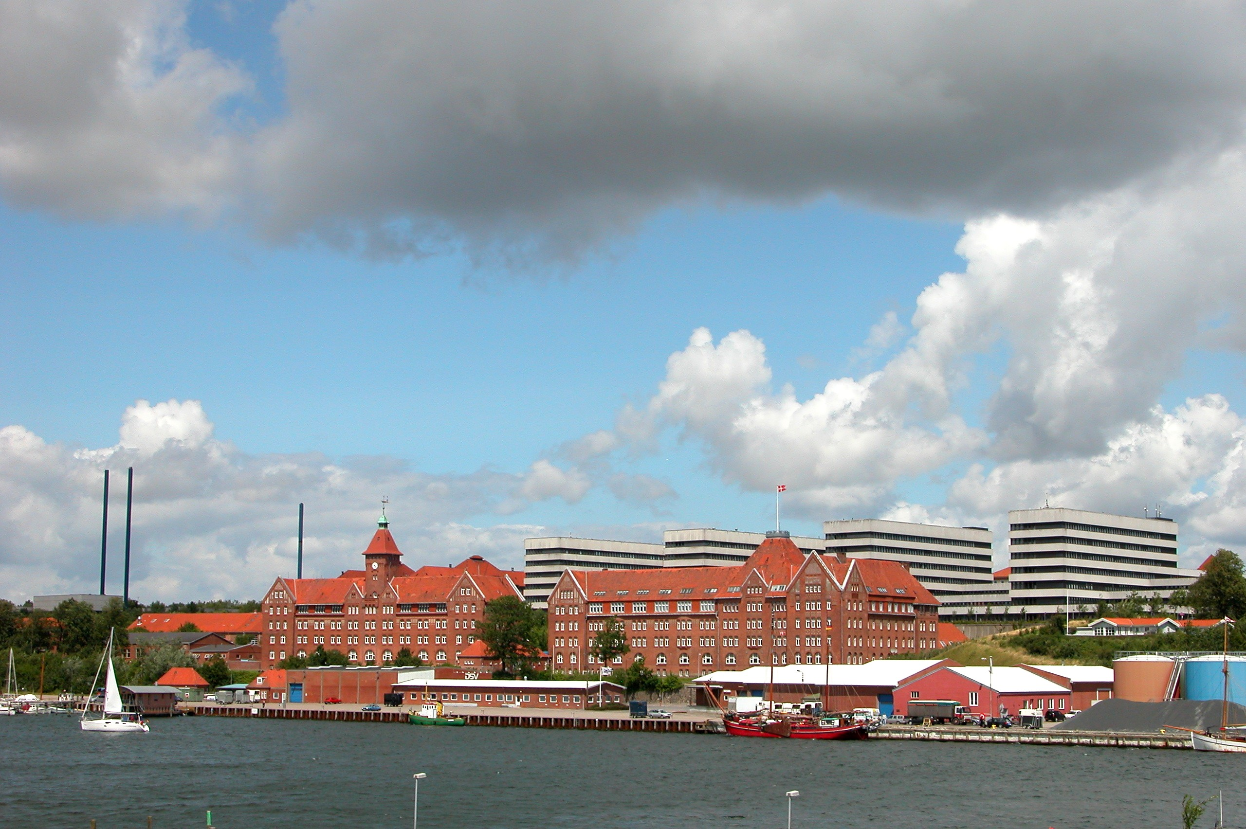 The barracks of Sonderburg - Sønderborg Kaserne, Sonderburg, Denmark